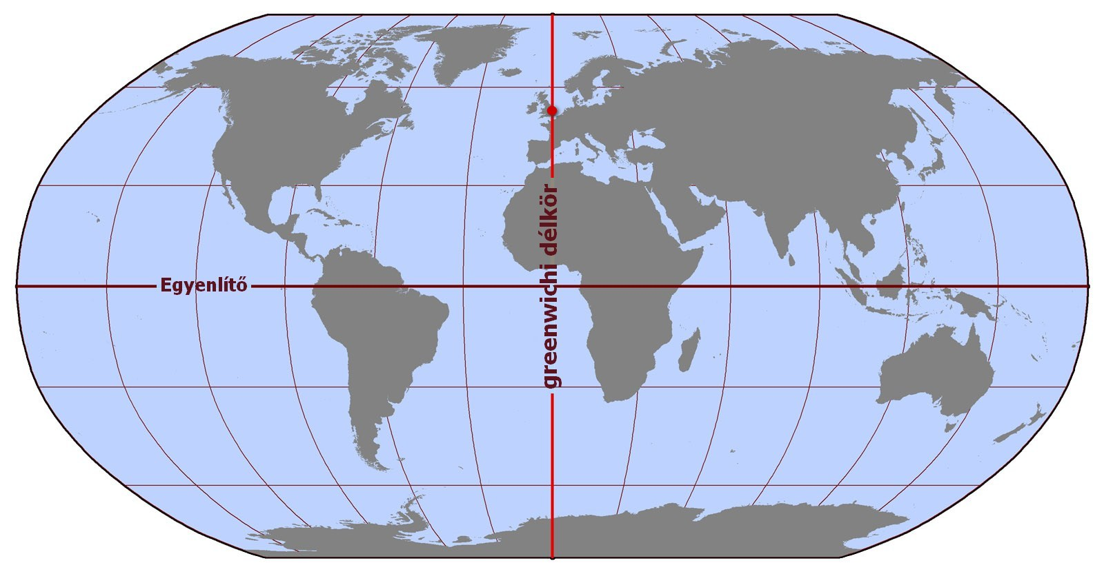 Location of Greenwich meridian